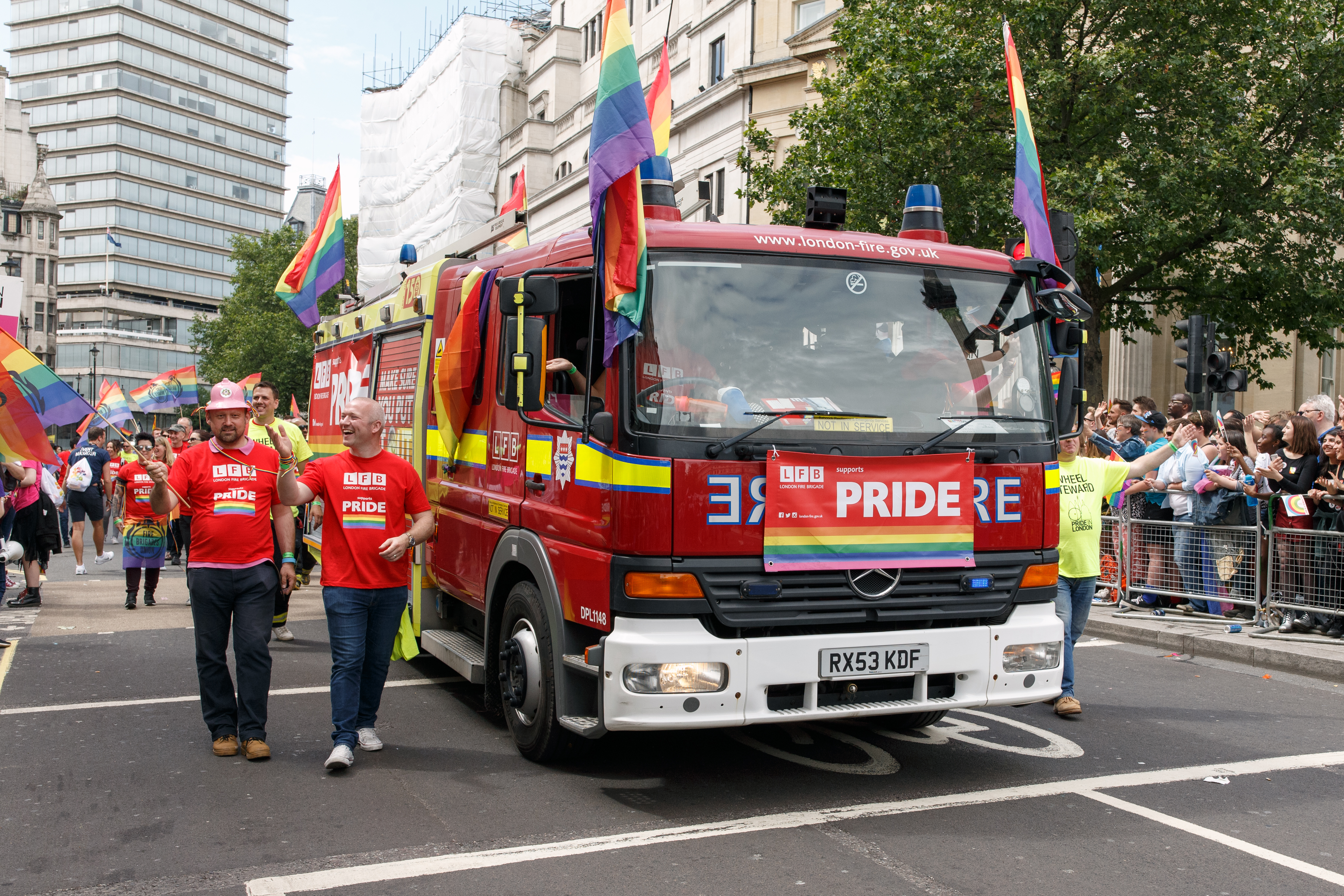 Members of the London Fire Brigade with a fire engine as part of the Pride in London 2016 parade.